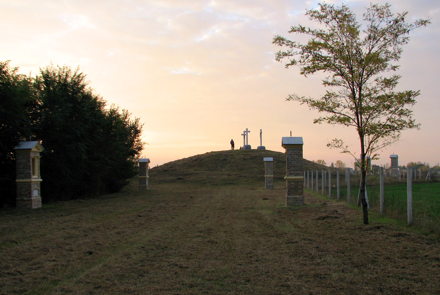 Traditional Roman Catholic pilgrimage site that represents Calvary, built at top of an ancient kurgan in Kanjiža, Serbia.Srpski (latinica): Breg Kalvarija, mesto hodočašća, izgrađen davno na jednoj od Kanjiških humki (Vojvodina). Ovaj veoma stari kurgan je dobro sačuvan zahvaljujući katastarskom pripadanju Rimokatoličkoj crkvi.